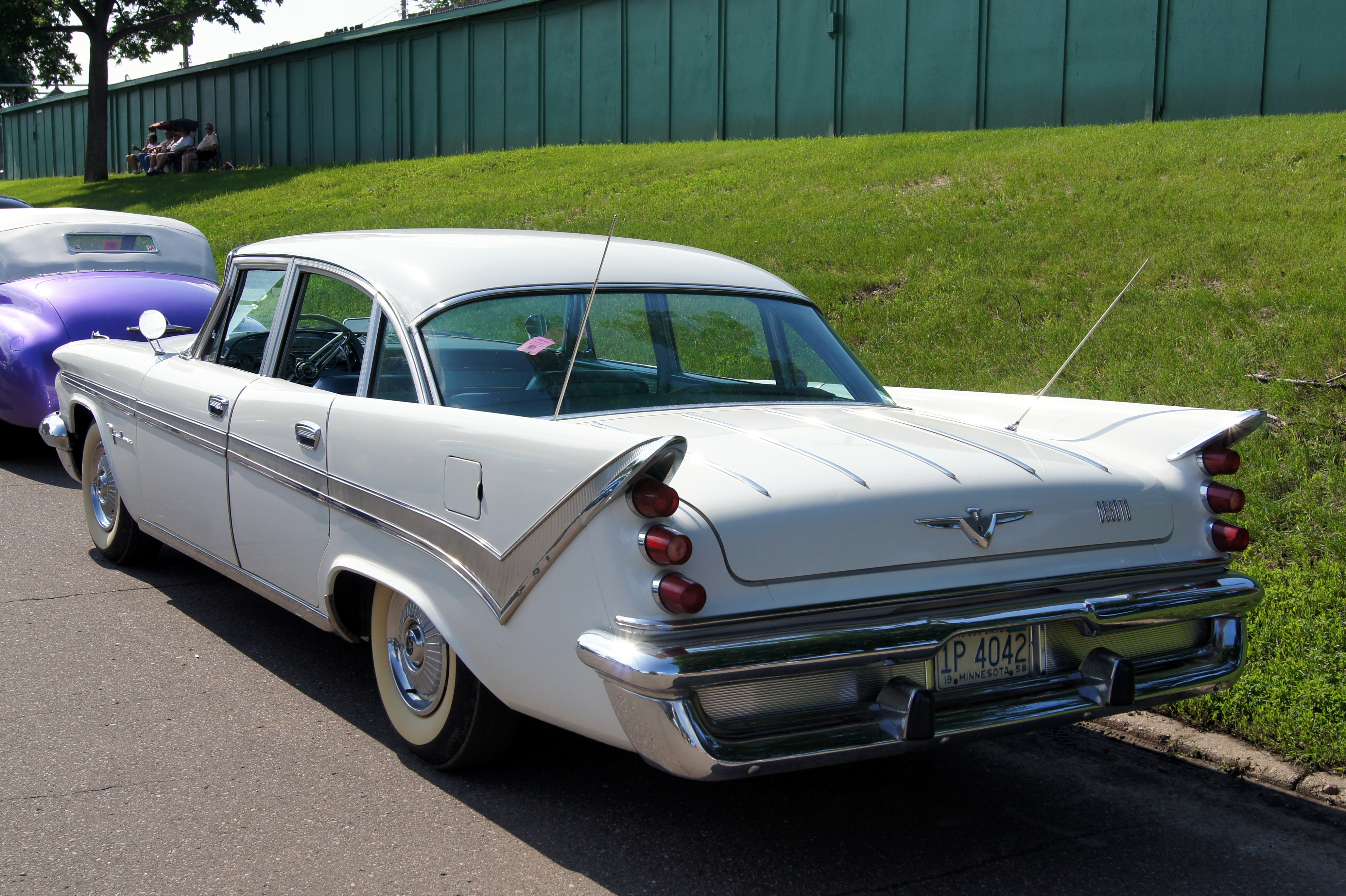 MSRA “BACK TO THE 50′s” 40th ANNIVERSARY June 21-23, 2013 State Fairgrounds St. Paul Minnesota More Car Pictures